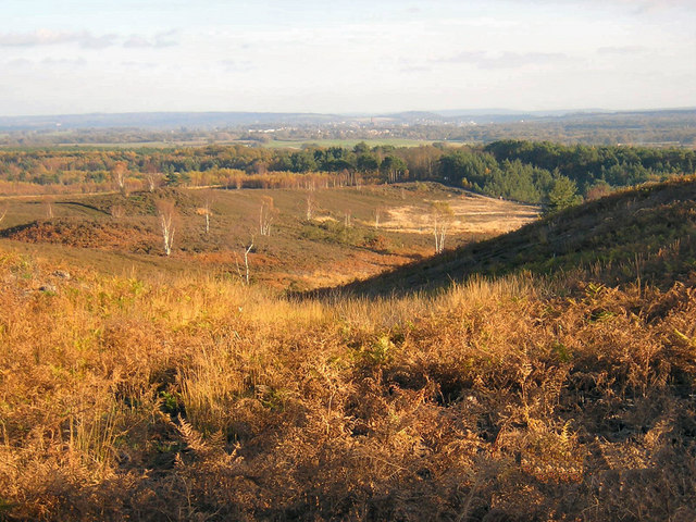 Ricochet Hill, Ash Military Ranges View from the track on top of Ricochet Hill looking towards Guildford